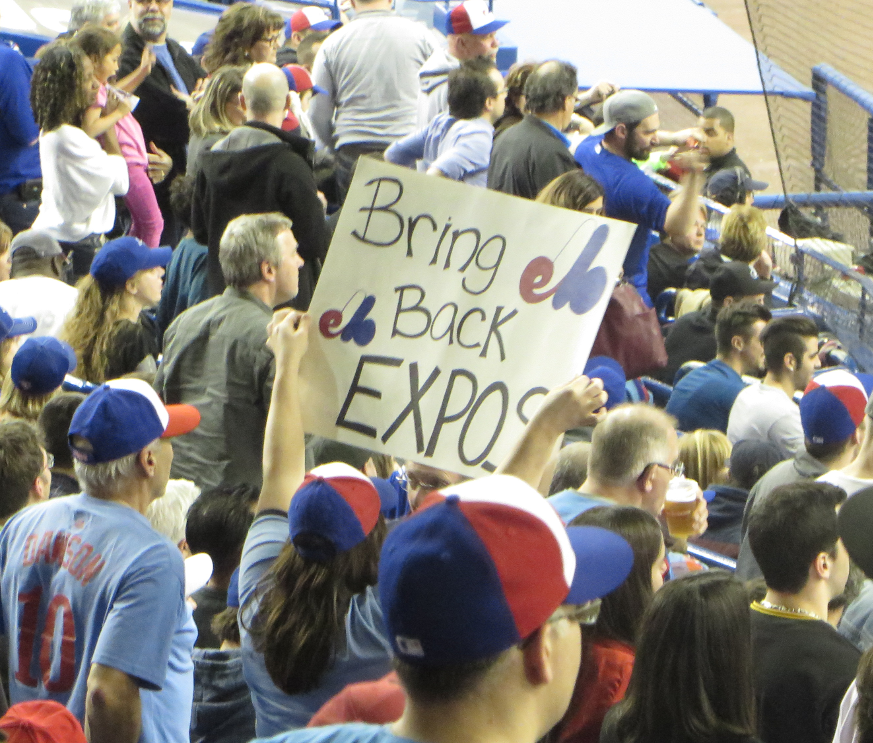 A fan holds a sign calling for a return of the Montreal Expos during the Toronto Blue Jays' exhibition game against the Cincinnati Reds at Montreal Olympic Stadium, April 3, 2015.